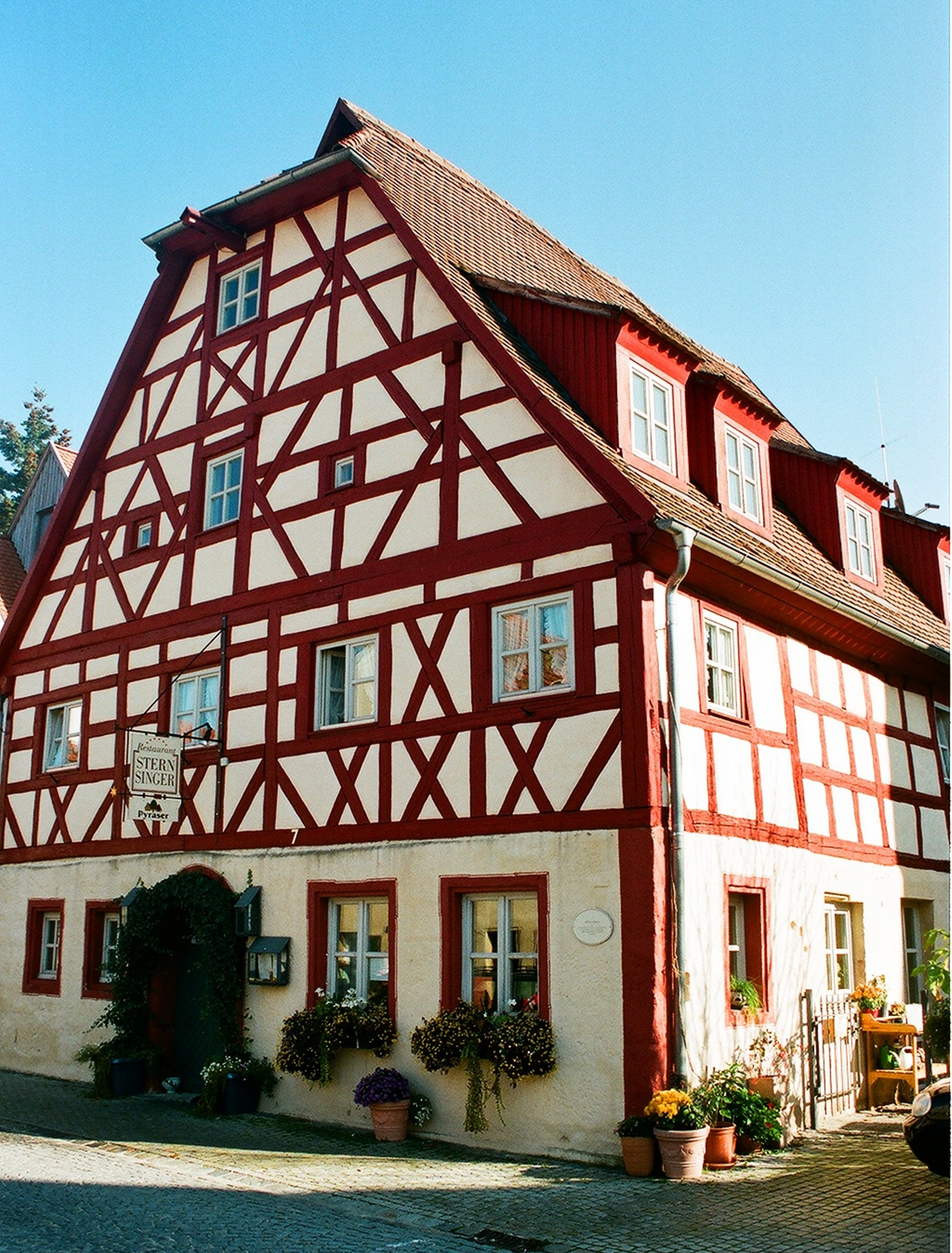 Hilpoltstein, the timber-framed house of the pub "Sternsinger"